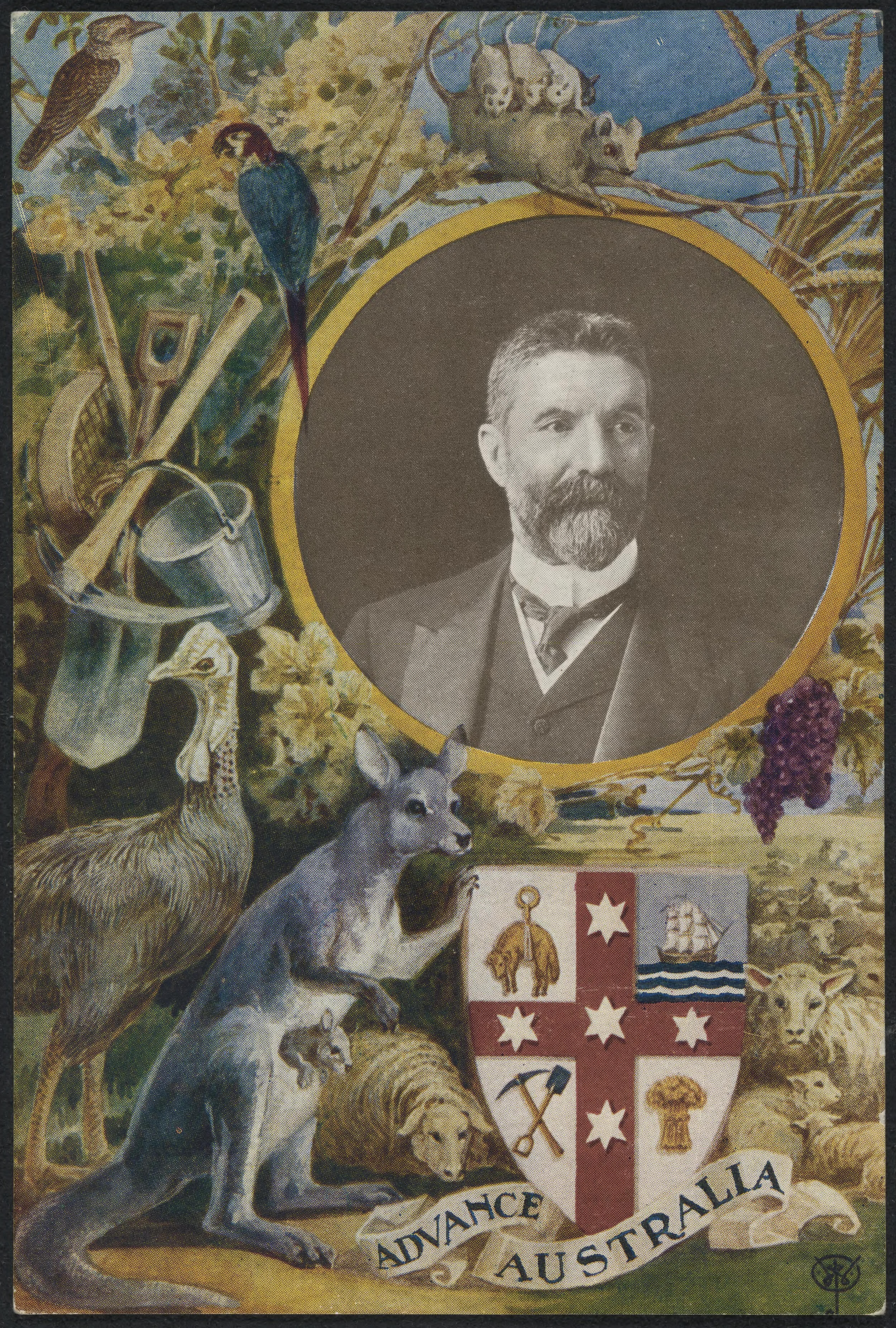 "Advance Australia" postcard, featuring Australian flora and fauna, a coat of arms (unofficial), mining equipment, and a photograph of the contemporary prime minister, Alfred Deakin